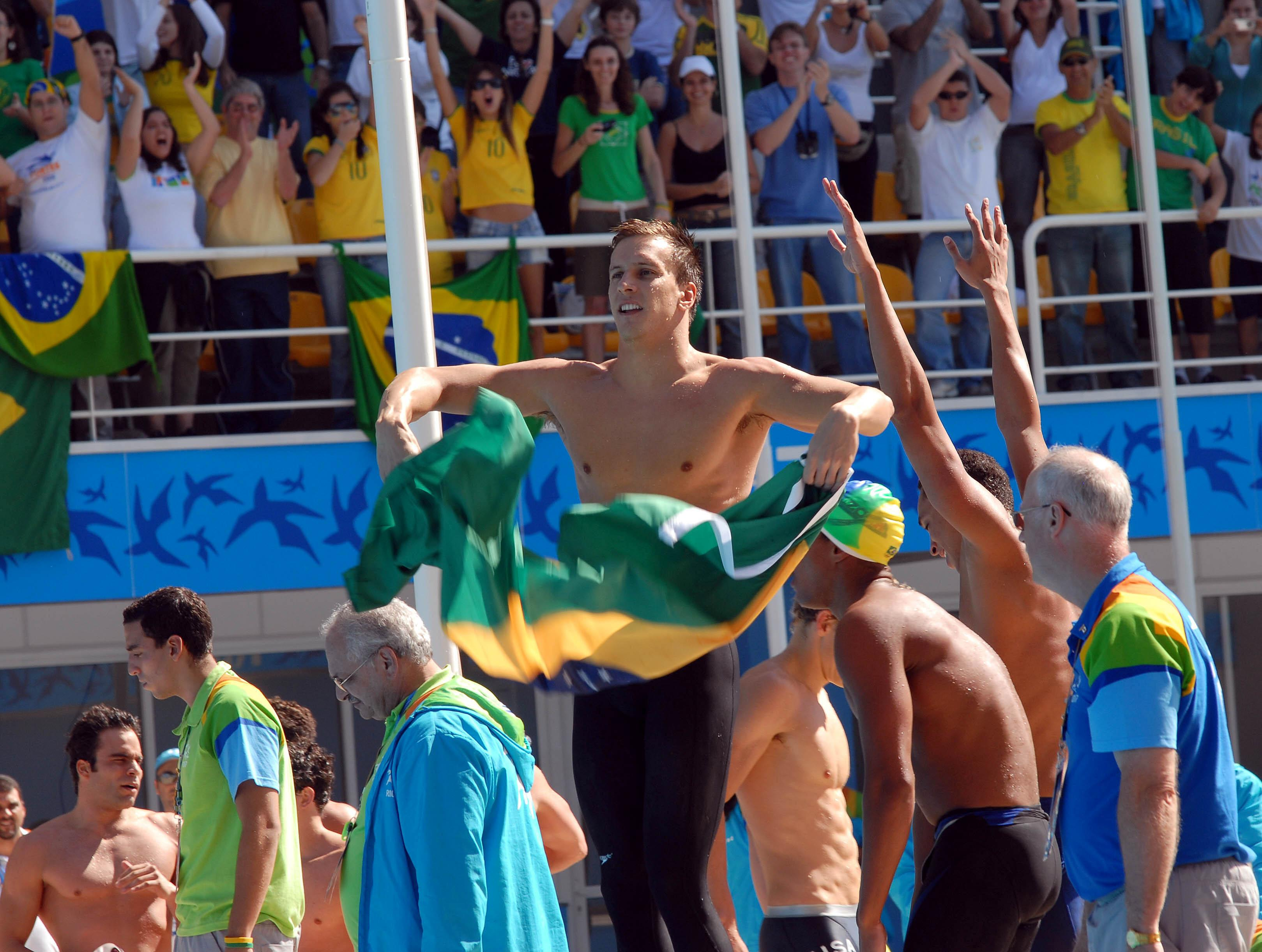 Rio de Janeiro - Swimmer Eduardo Deboni, member of the Brazilian team, celebrates the gold medal in the 4 x 100 meters freestyle at 2007 Pan American Games